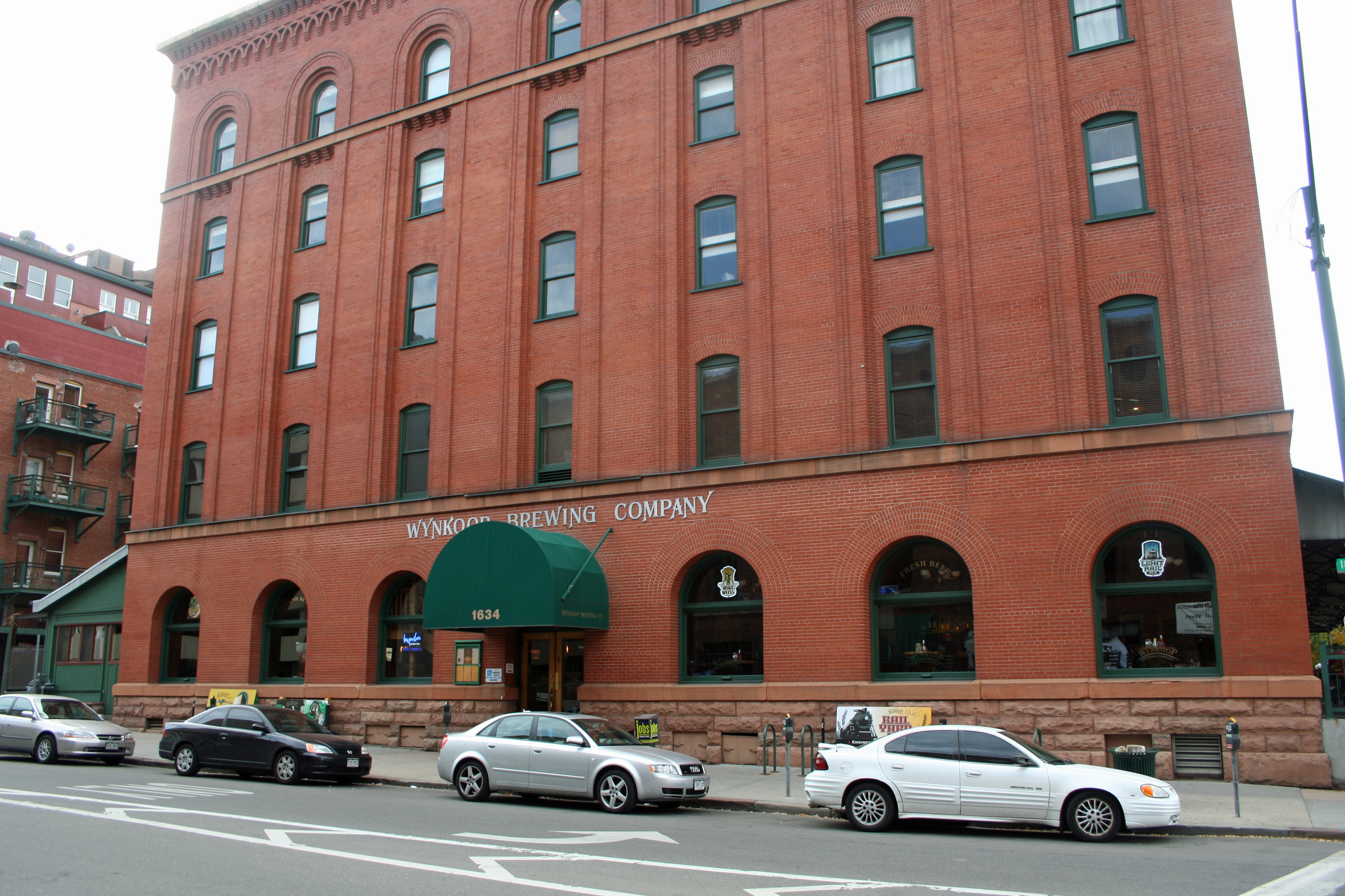 The Wynkoop Brewing Company, a restaurant and microbrewery in Denver, Colorado